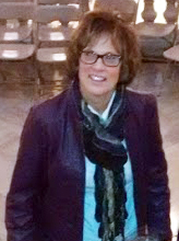 Kentucky State Representative Melinda Prunty